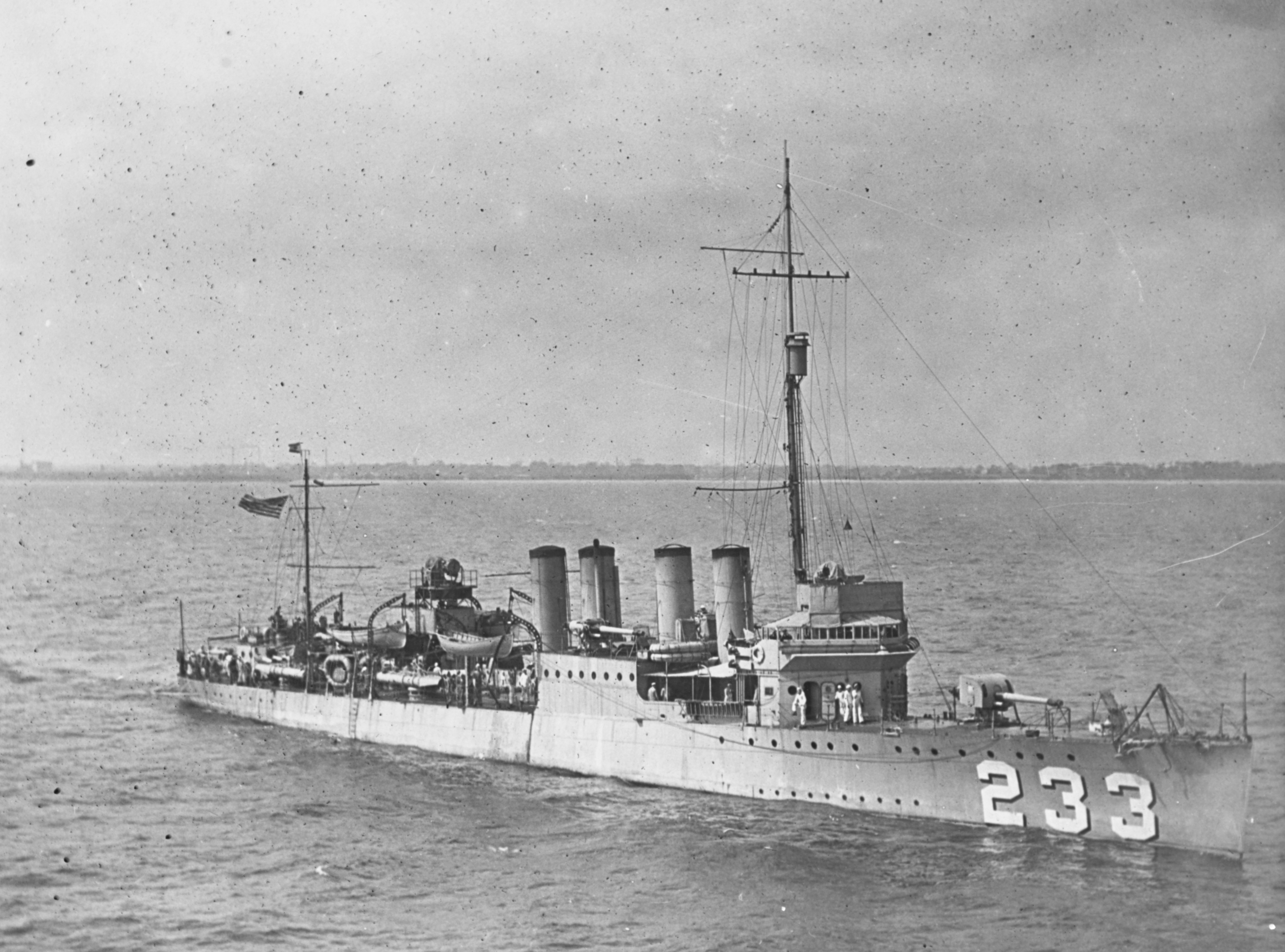 The U.S. Navy destroyer USS Gilmer (DD-233) underway in Hampton Roads, Virginia (USA), in October 1922. Note her 127 mm/51 guns. She was one of five flush-deck destroyers to carry these weapons.